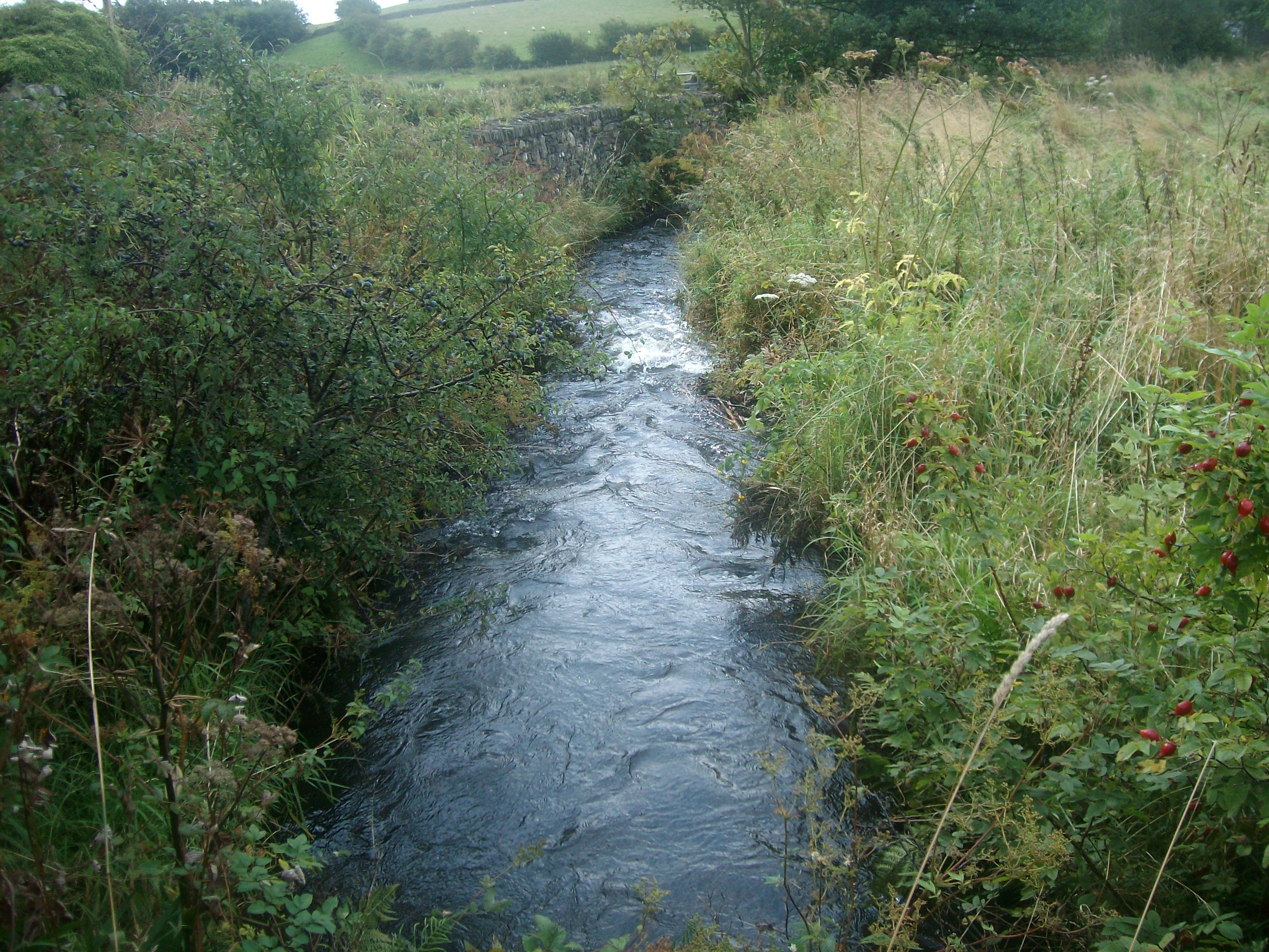 The beck from which the village Broughton Beck lends its name. The town of Broughton is further north.